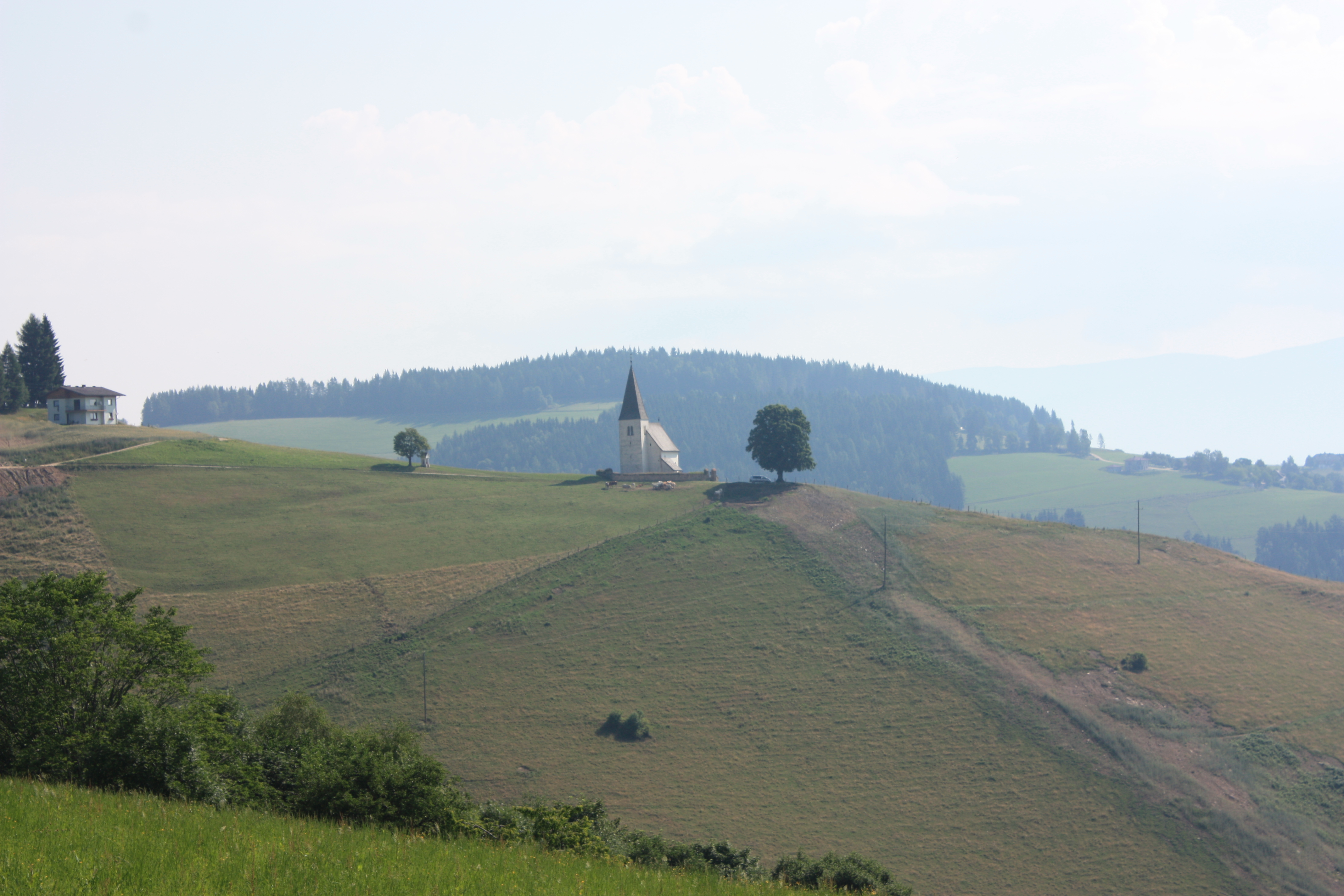 View to Tschrietes in the community of Griffen